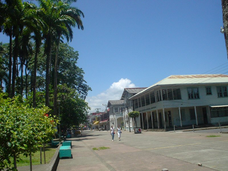 Stretching along the Caribbean coast of Costa Rica, the Limon province is a magical mixture of mangroves, pristine beaches and tropical forests. These picturesque lowlands sustain a rich natural beauty that conservationists are working hard to protect. . Here one finds sprawling banana plantations and thick, tropical jungle bordering the lofty Central Mountains. The Afro-Caribbean influence is evident everywhere, from the lyrical speech and reggae rhythms to the colorful wooden bungalows that line the laid-back, coastal villages. Almost a third of the province s sparse population live in and around the capital-port city of Puerto Limon, or simply Limon. Whether you 're looking for the distinctive local culture or the blossoming ecotourism industry, just ask, "Wh'appen, man?". Someone is sure to tell you, with a smile. Please see set comment for Puerto Limon Overview?